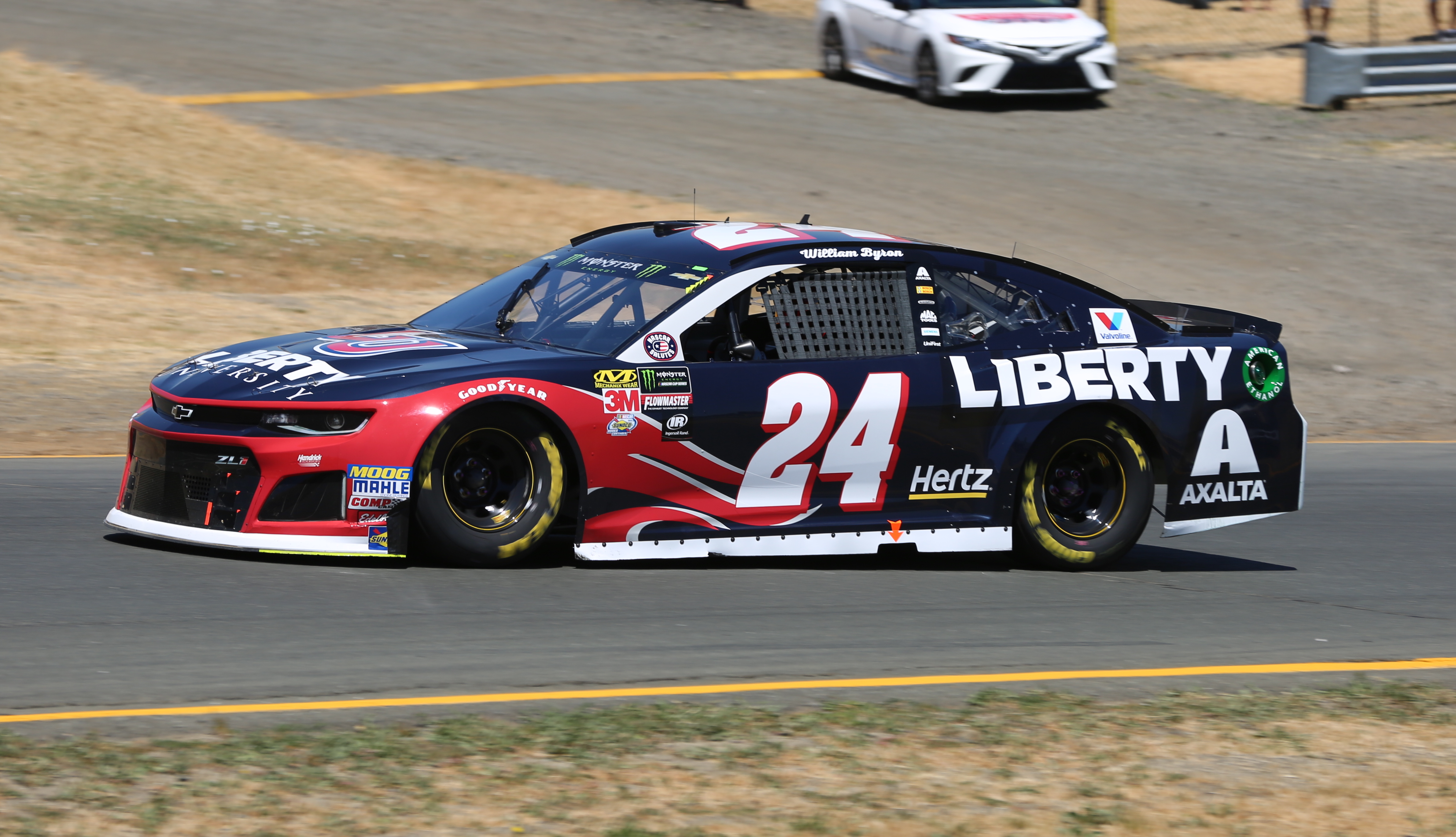 William Byron's No. 24 Liberty University Chevrolet at Sonoma Raceway in 2018